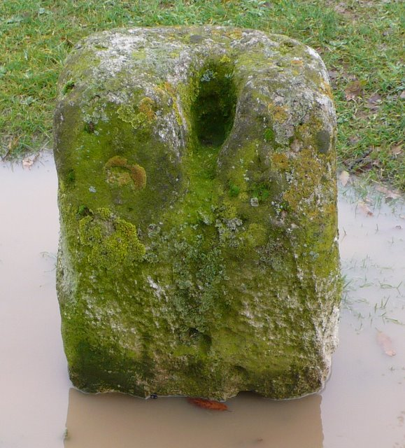 Yeovil Hundred Stone (detail) At the junction of Stone Lane and Mudford Rd this stone could be a boundary stone or a meeting stone. The stone is grooved with a notch that may have been a hole at one time. One reference states it has a roman carving on it but none was evident.